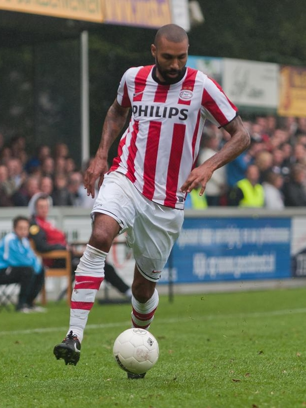 Dutch footballer Orlando Engelaar playing for PSV in the KNVB Cup match against VVSB on 21 September 2011.